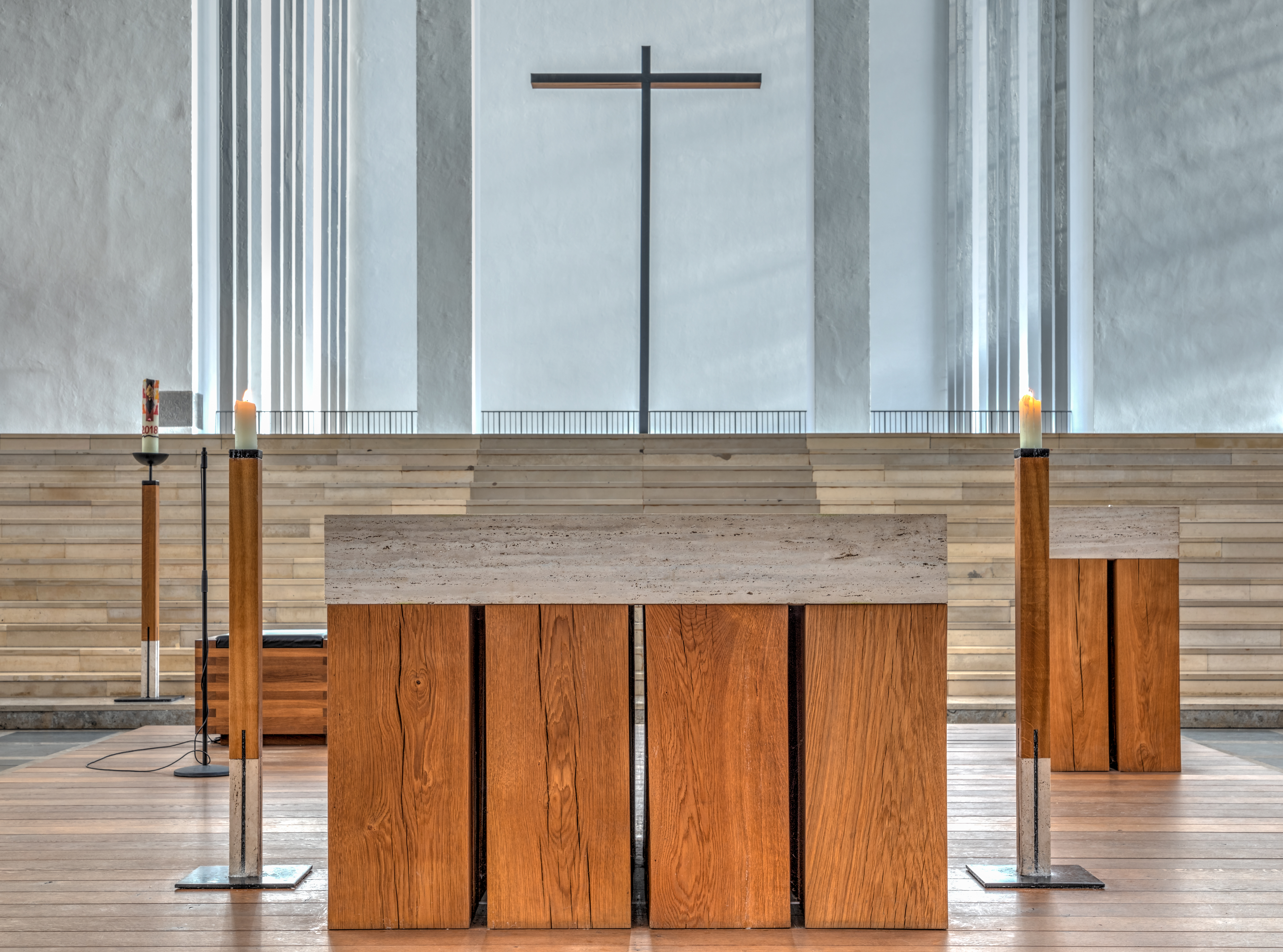 Altar at Holy Cross Church in Dülmen, North Rhine-Westphalia, Germany